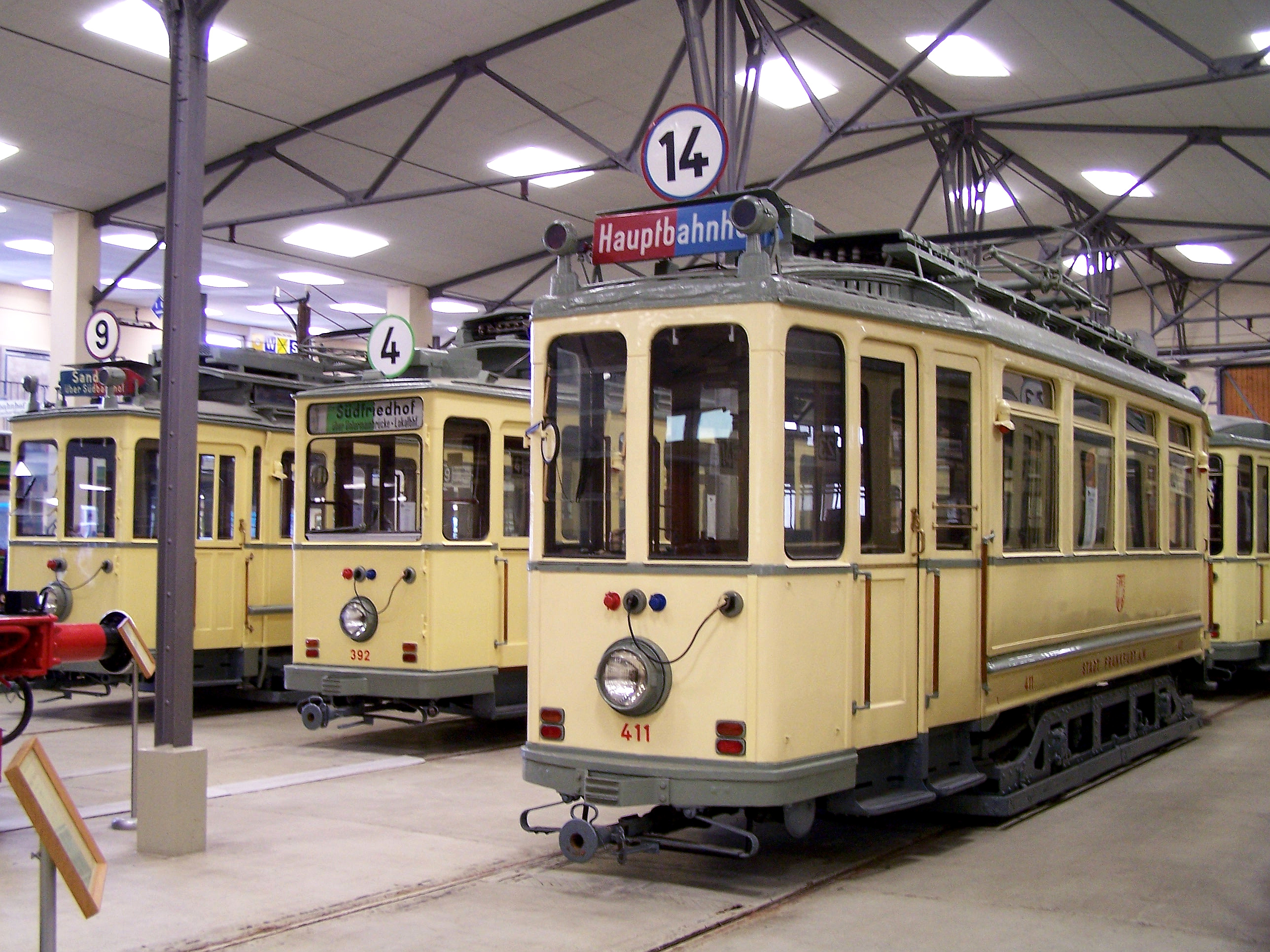 trams type C No 375, D No 392 and F No 411 in the Frankfurt on Main Transport Museum in Frankfurt am Main--Schwanheim